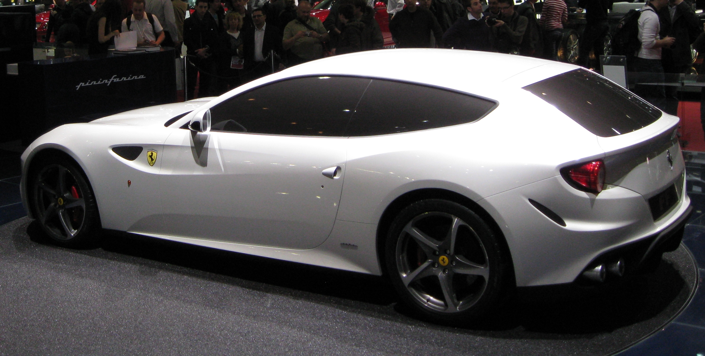 Geneva Motor Show 2011